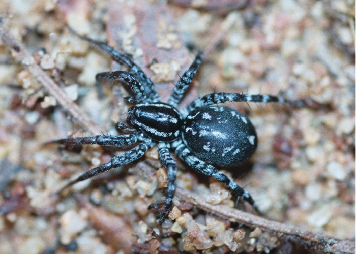 Copa flavoplumosa female from Wildlives Game Farm, Zambia.